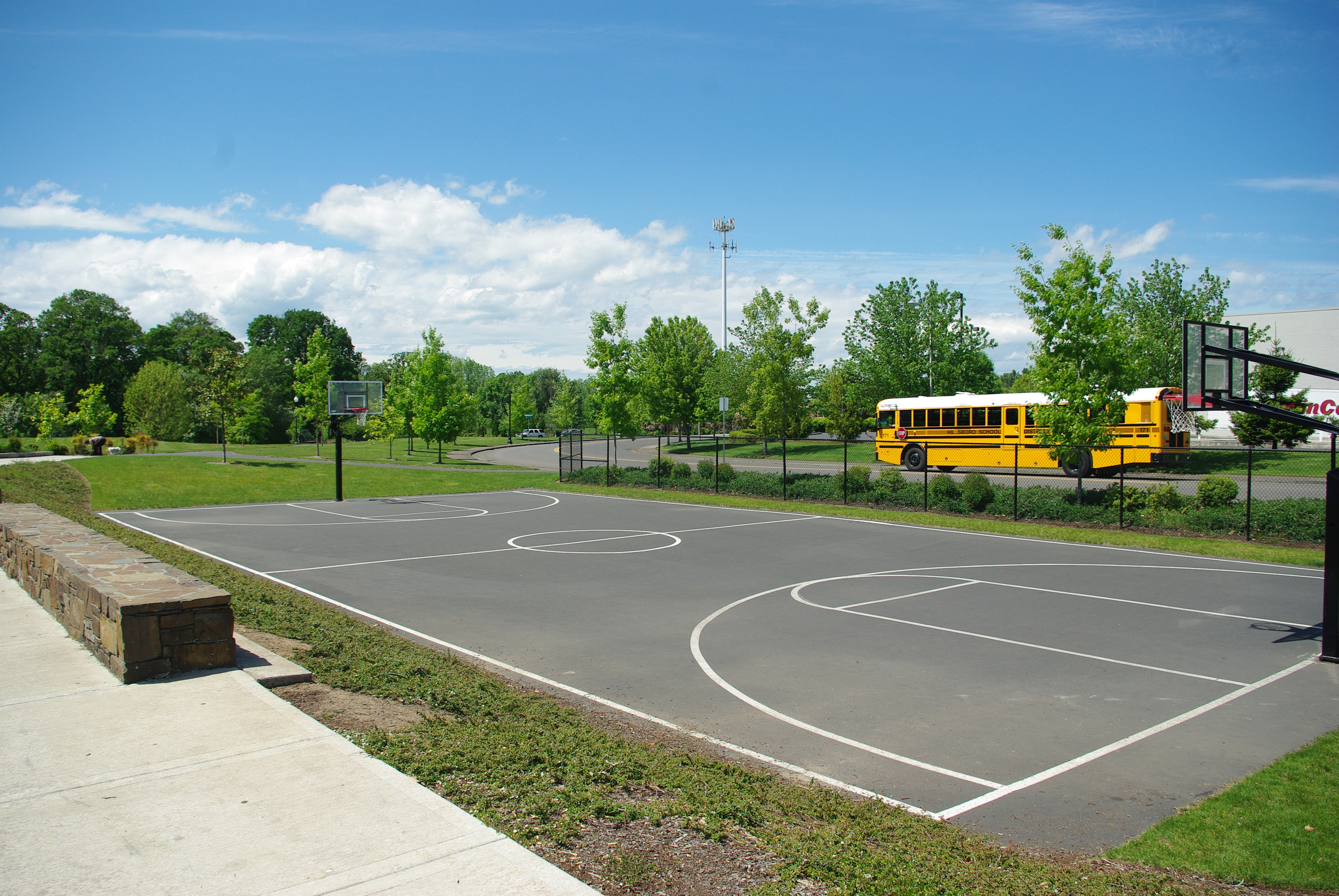 Dairy Creek Park in Hillsboro, Oregon, USA.